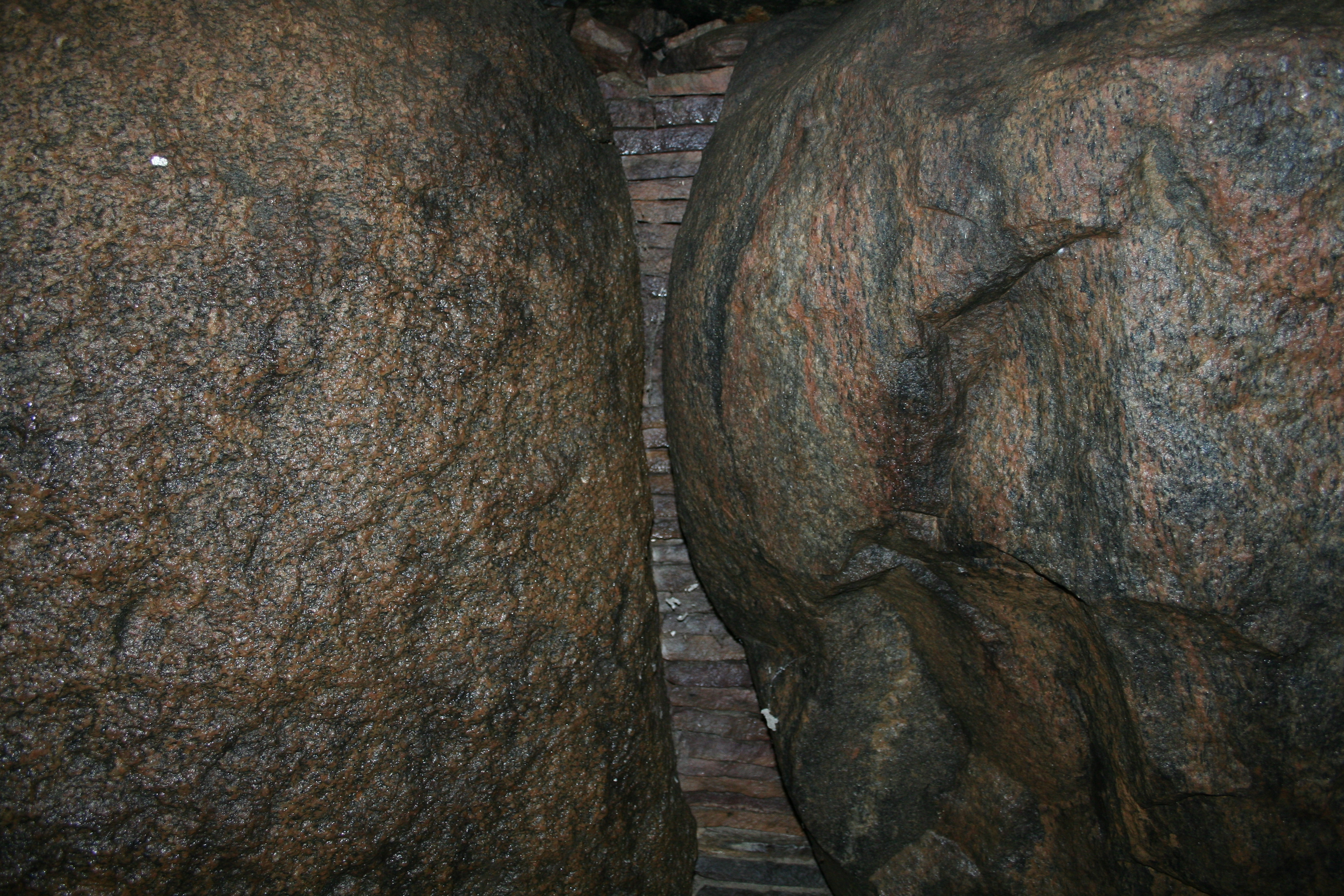 Rugballe Grønhøj near Horsens, Midtjylland, Denmark